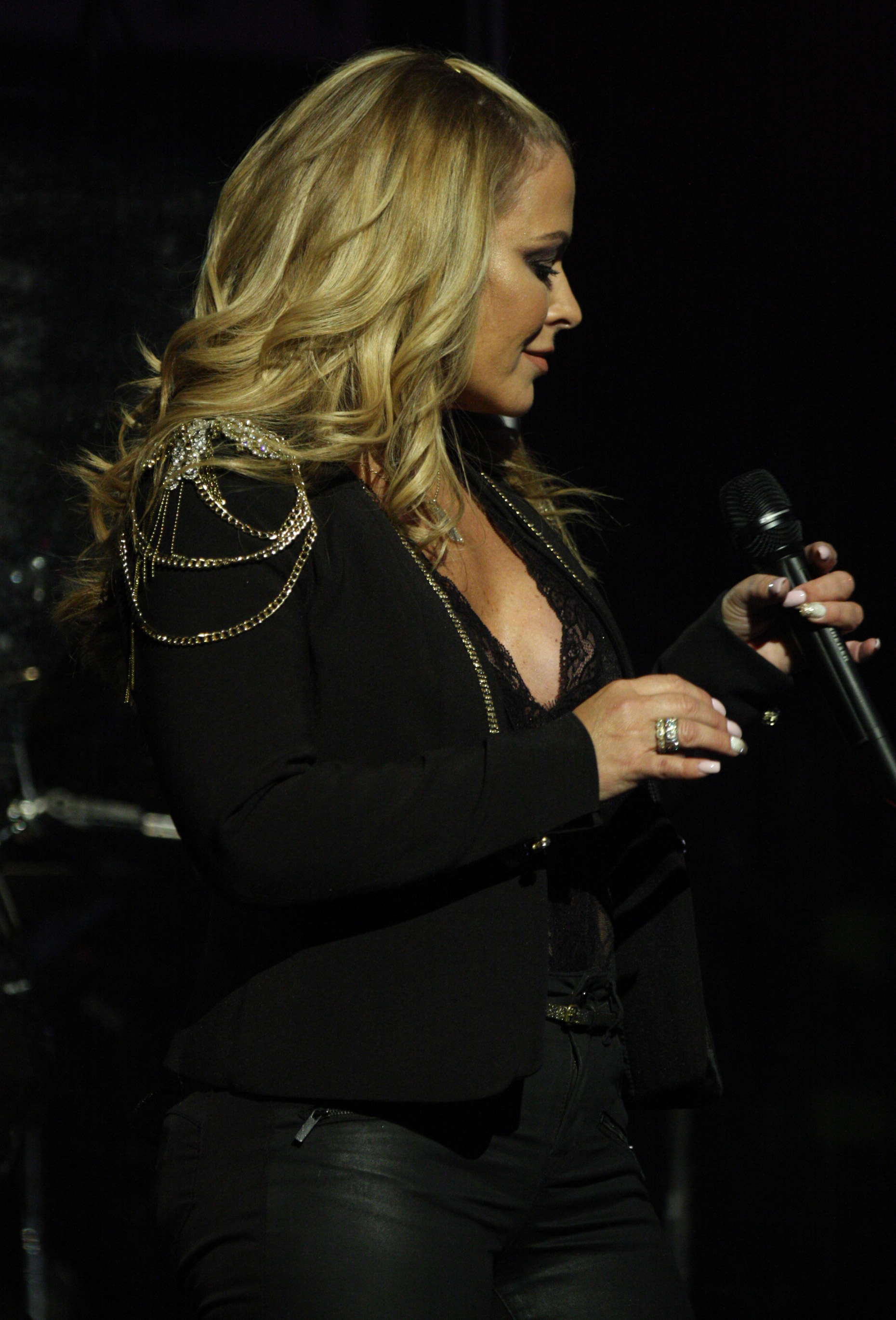 Anastacia performing at The Star Event Center in Sydney